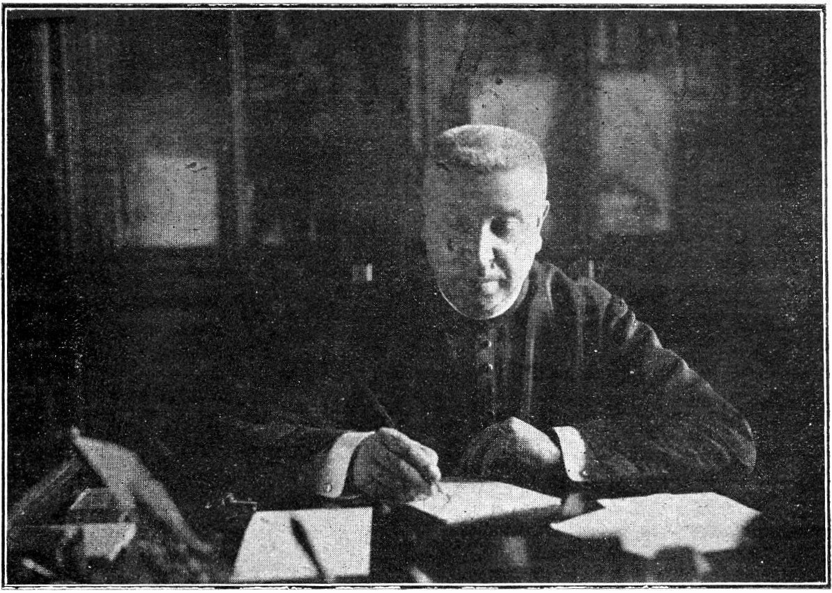 Remigio Vicedo Sanfelipe.